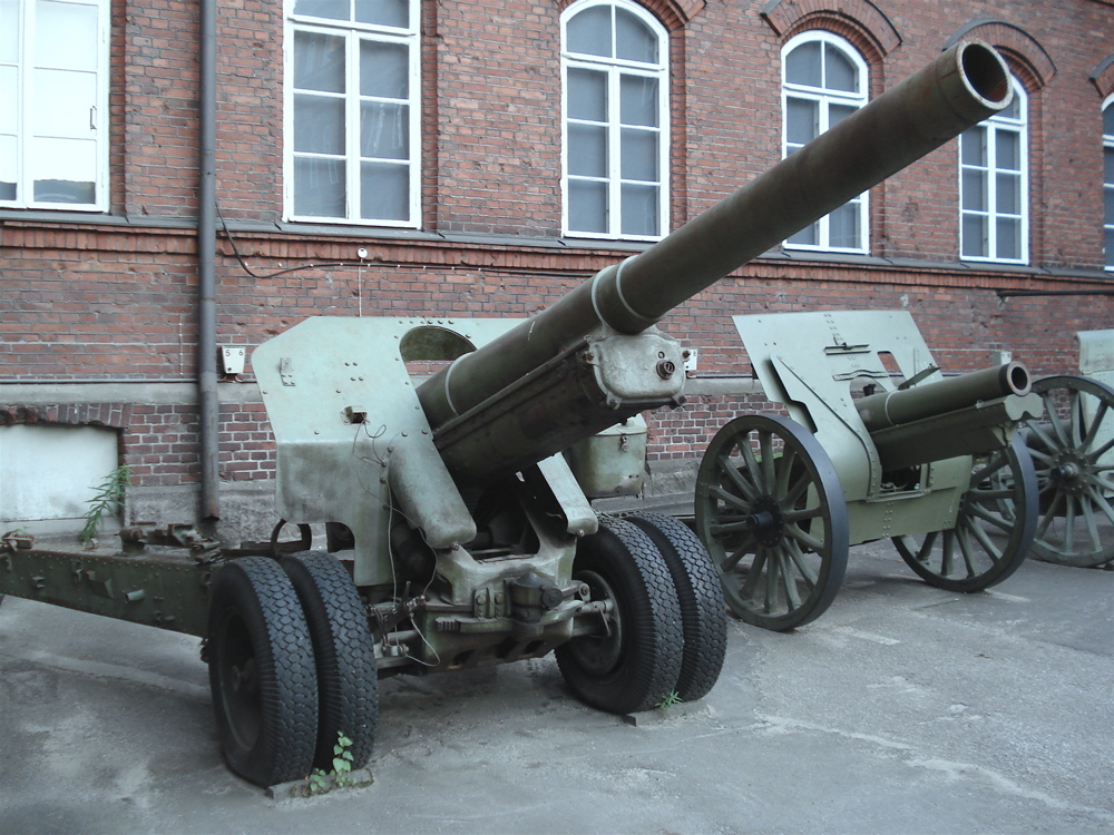 Soviet 152mm mm M-10 Model 1938 howitzer, displayed in Helsinki Military Museum. Photo taken on July 4, 2006. Source: Photo by me, User:Balcer.